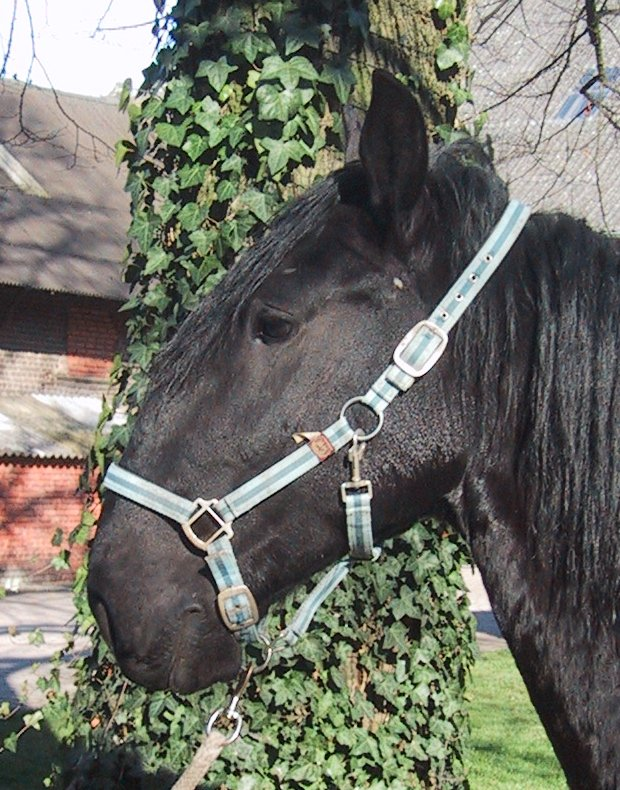 Own Foto Kladruber from Solo-Line